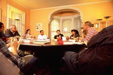 Discussion class at Shimer College, Waukegan, IL